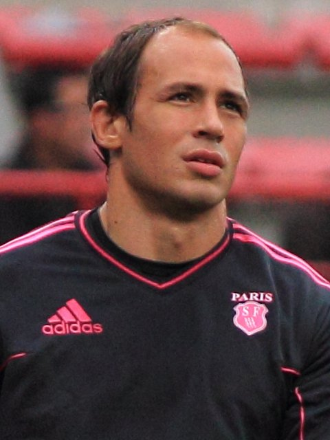 The italian rugby union player Sergio Parisse wearing Stade Français's jersey